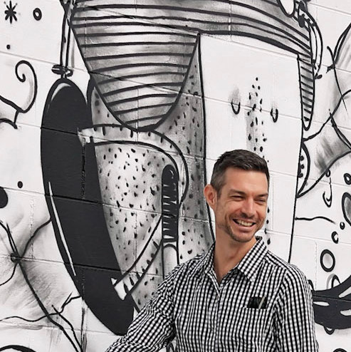 Gavin King profile shot